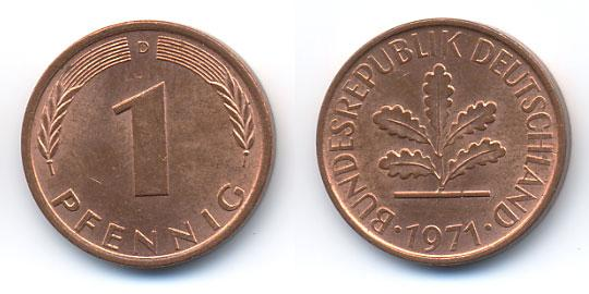 German 1 pfennig (1/100 of a mark).